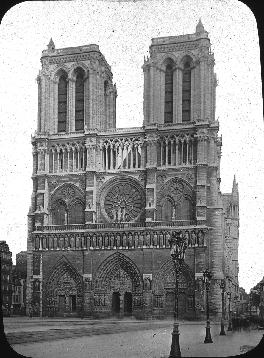 Notre Dame, Paris, France, 1903. Notre Dame. Paris; [exterior view, facade]. Brooklyn Museum Archives.